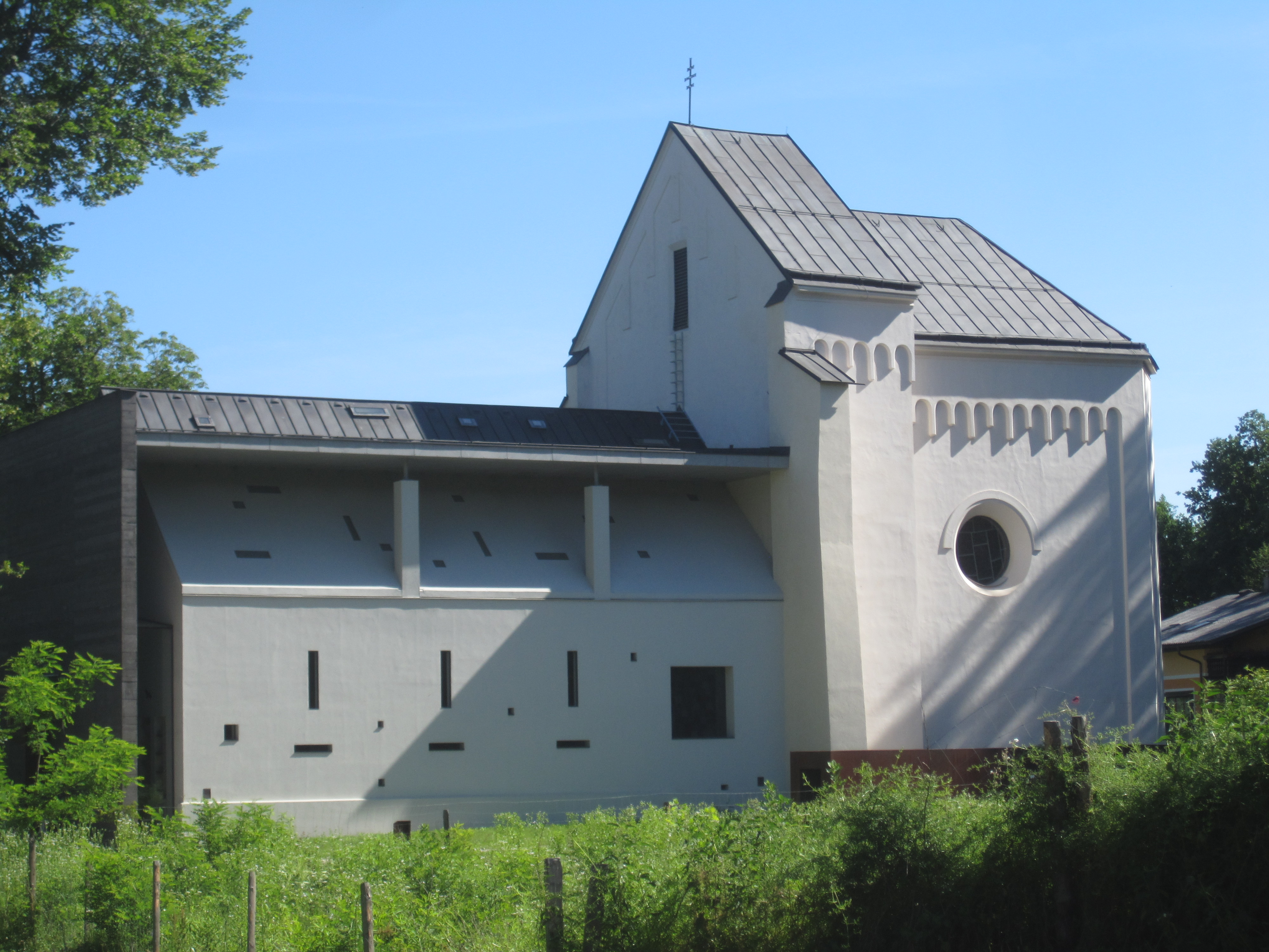 Church in Dolina, pilgrimage church in the Municipality of Poggerdorf/Pokrče in Carinthia/Austria, exterior